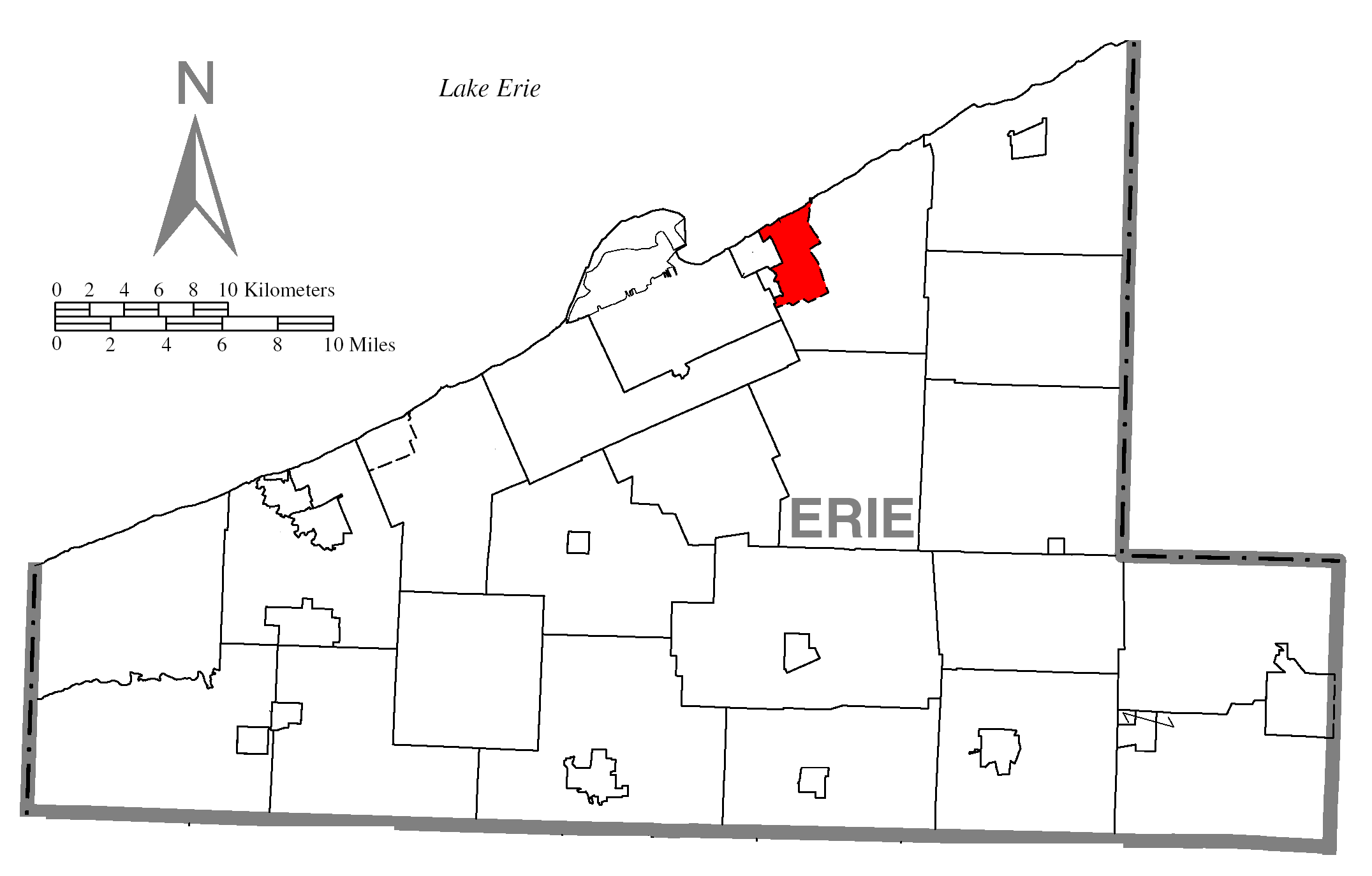 A map of Erie County showing Northwest Harborcreek, Pennsylvania (alternate) highlighted on the map.